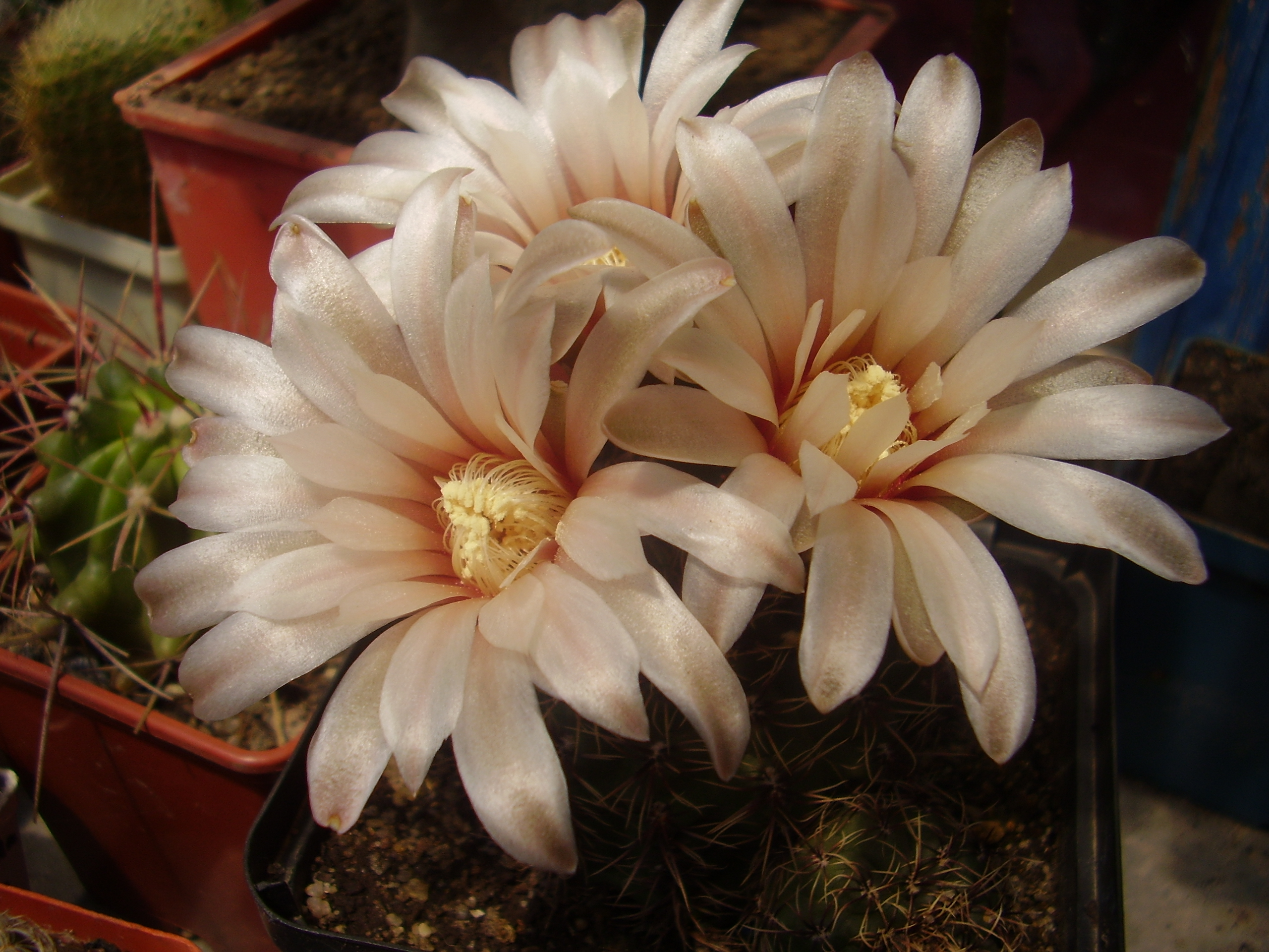 Gymnocalycium erinaceum var. paucisquamosum from collection of Yuriy Shostak (Mykolaiv, Ukraine)